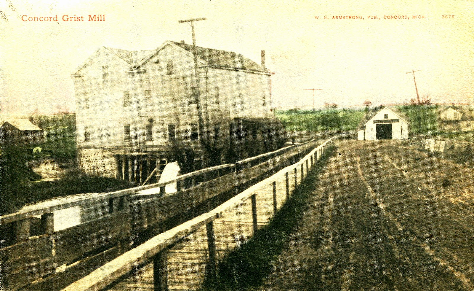 Concord Grist Mill, Concord, Michigan -- card postmarked 1910.